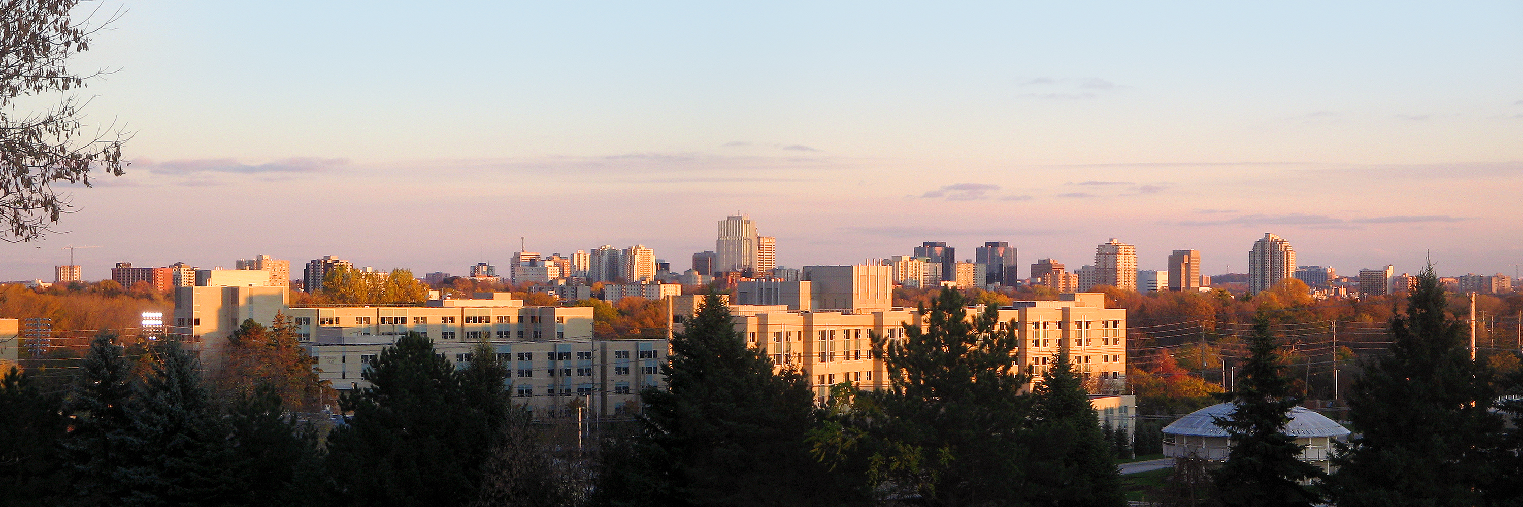 Panoramic view of London, Ontario's downtown skyline from the University of Western Ontario